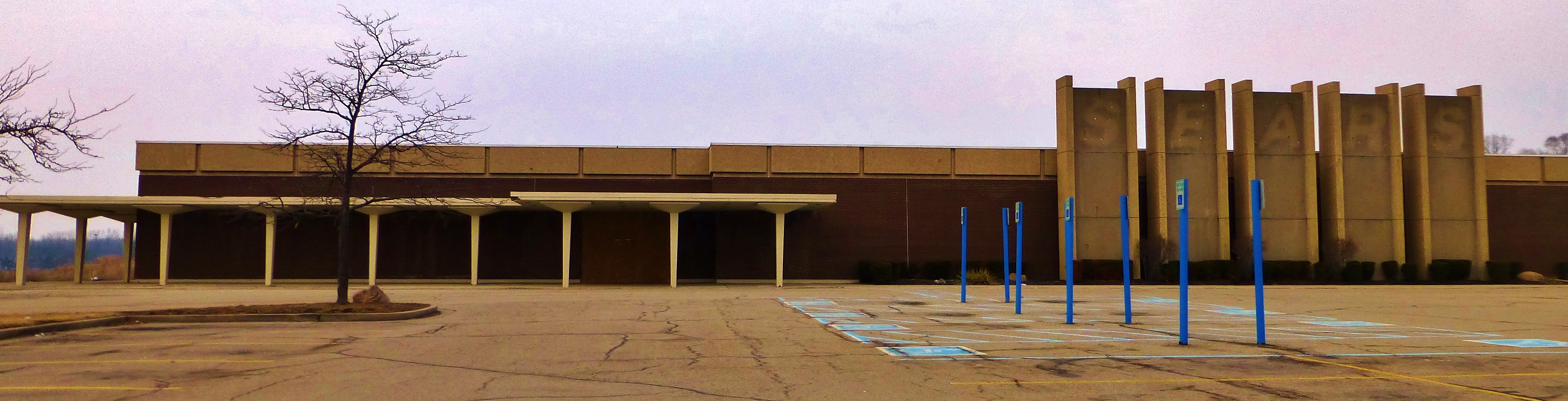 Former Sears Department store at Salem Mall, Trotwood, Ohio.